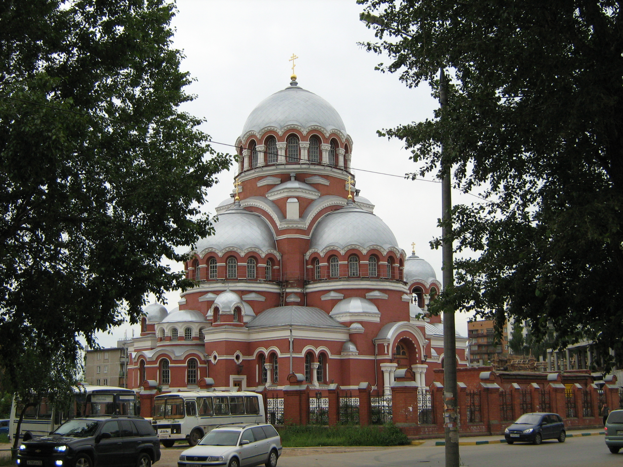 Transfiguration Cathedral in central Sormovo